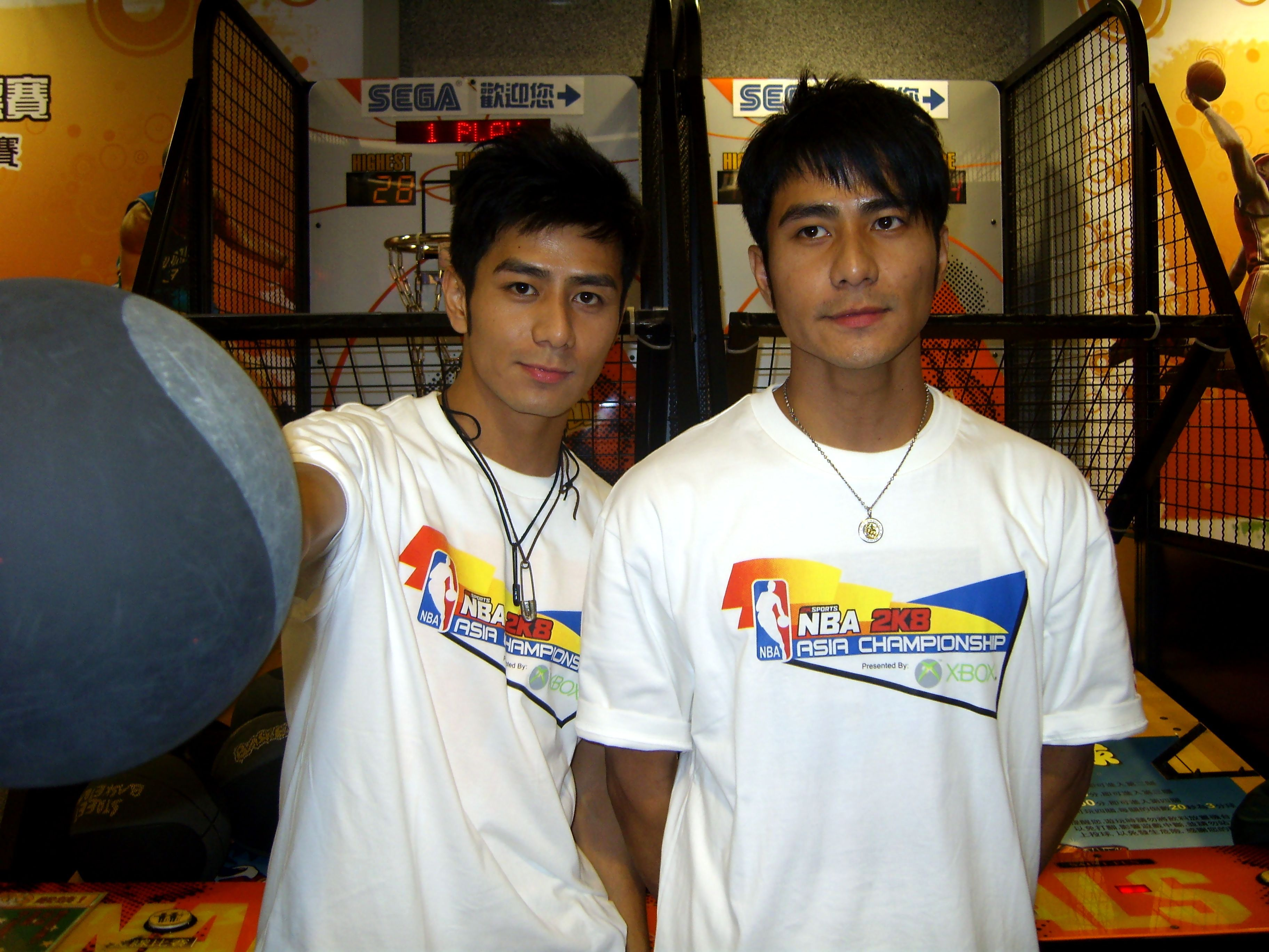 2007 NBA 2K8 Asia Championship in Taiwan: 2moro, a Taiwanese boyband.